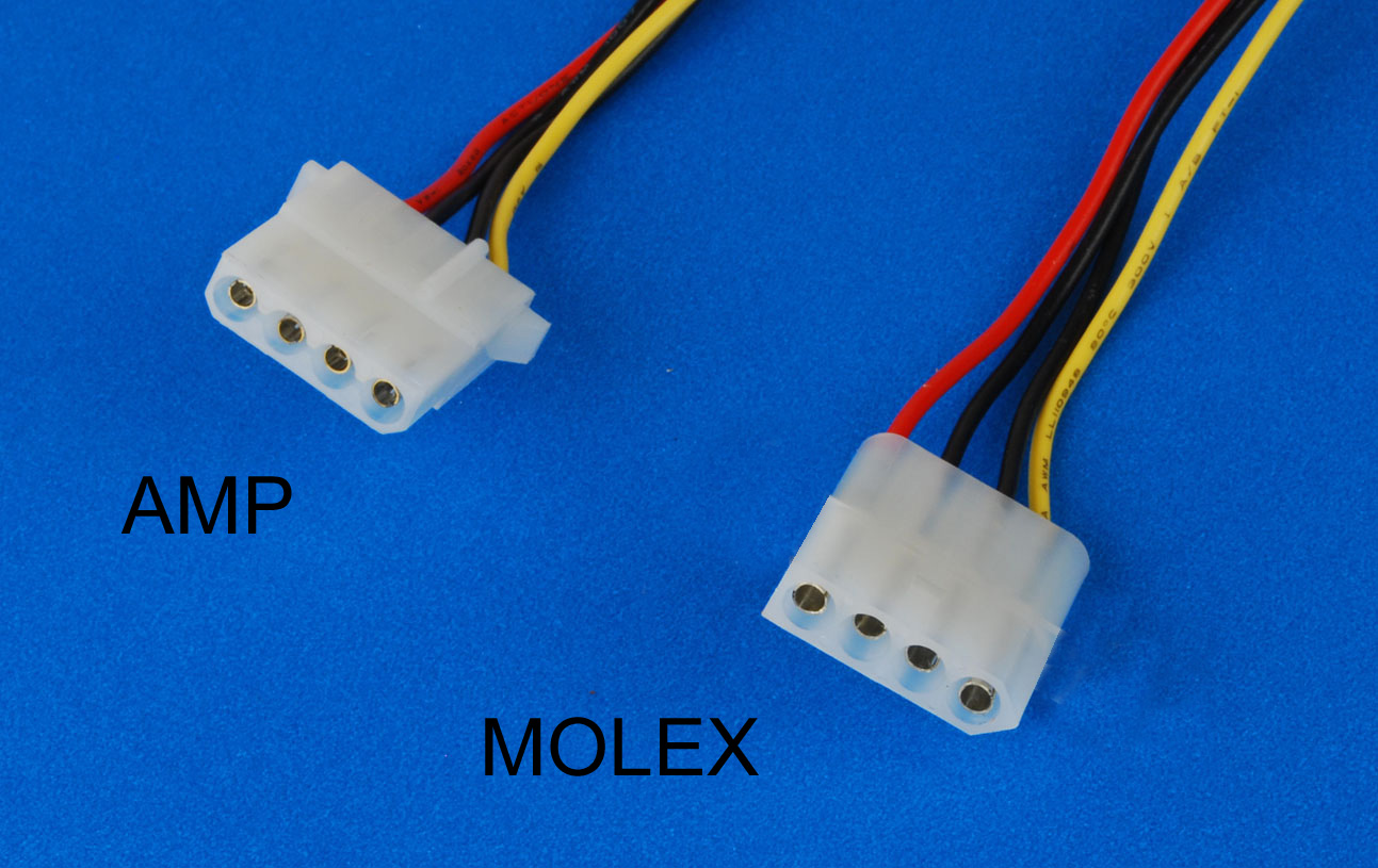 AMP Mate-N-Lok and Molex Standard .093" Pin and Socket power connectors. The AMP connector has two chamfered corners on the lower edge while the Molex has a single chamfered edge on the left. Photo by Michael Holley with a Nikon D60 DSLR under tungsten lighting